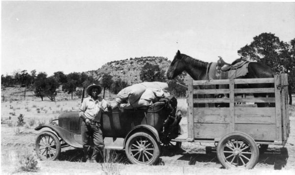 1928—The "universal outfit" for Rangers. In the Gila National Forest, southwest New Mexico. Photo by F. L. Kirby FS #225792